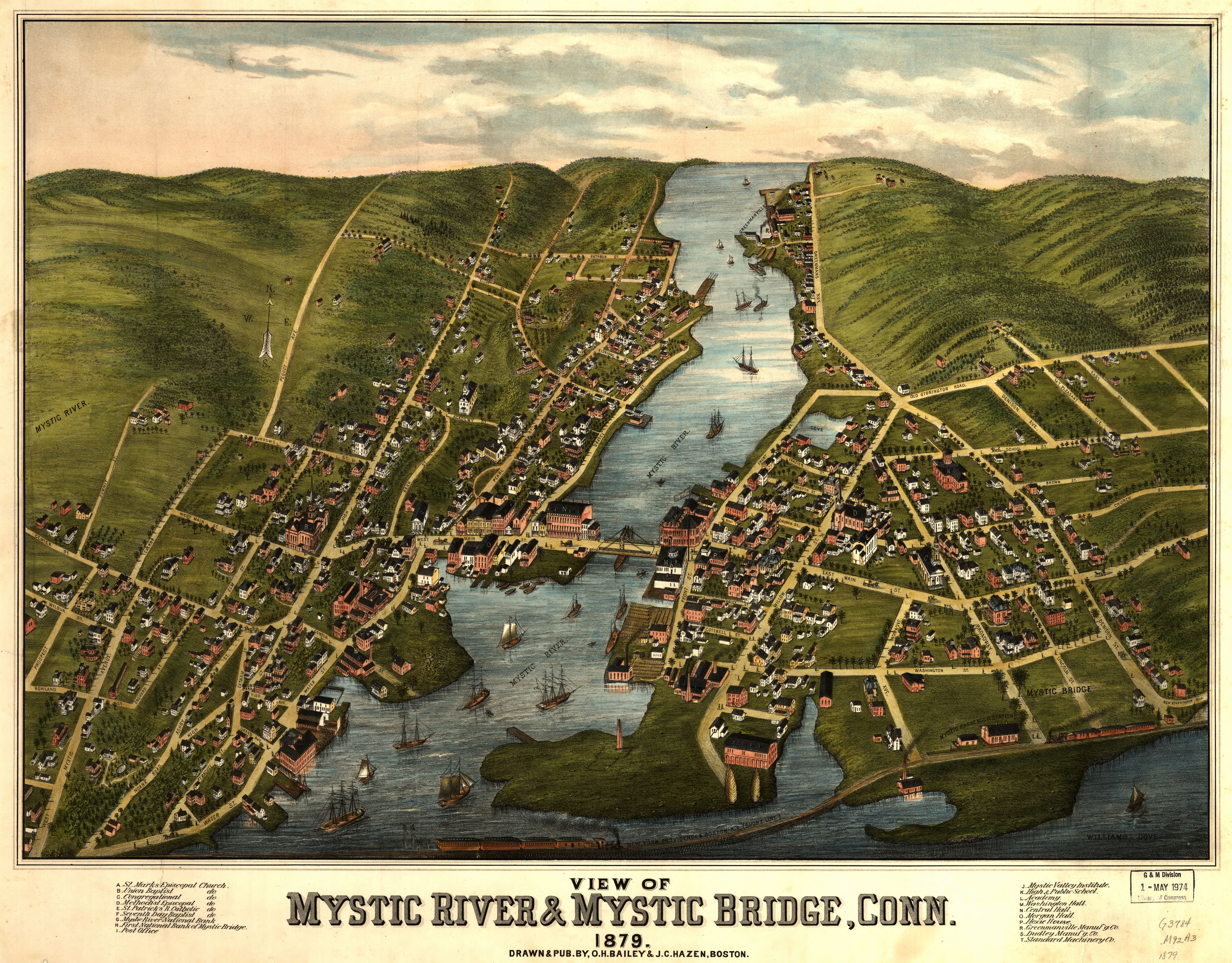 Perspective map not drawn to scale. Hand colored. Bird's-eye-view. LC Panoramic maps (2nd ed.), 85.3 Available also through the Library of Congress Web site as a raster image. Indexed for points of interest. AACR2: 100; 651/2; 700/1